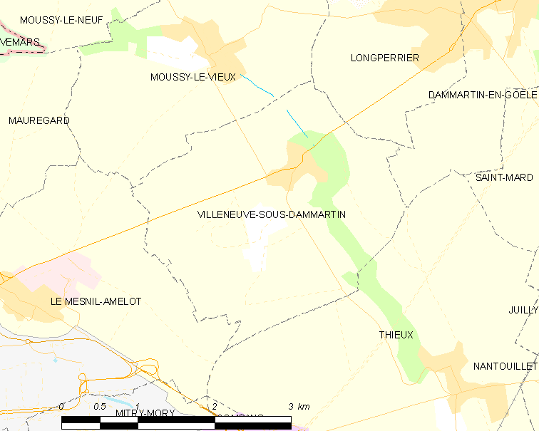 Map of French municipality Villeneuve-sous-Dammartin